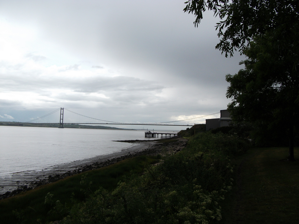 Humber Bridge from Hessle, East Riding of Yorkshire, England. Note: geotagged images have been done manually, generally to ~5m or better accuracy, but human errors may occur. Location refers to camera location, no location of object photographed.